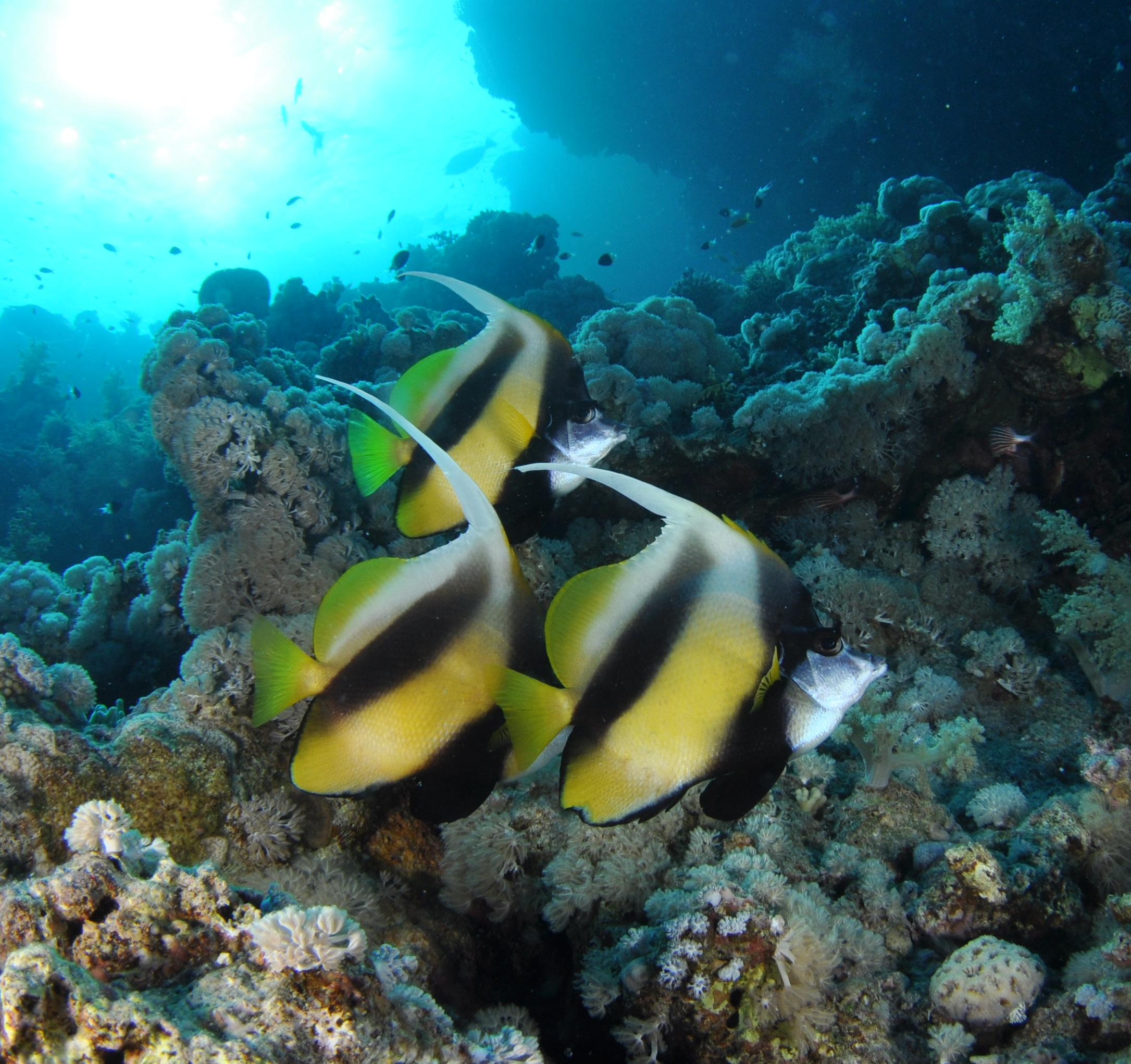 Red Sea Bannerfish